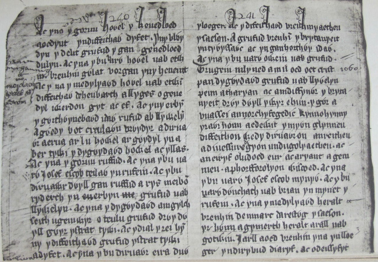 Column 240 - 241 of the Red Book of Hergest, 1375 - 1425. Scan of J. Gwenogvryn Evans' facsimile edition (1890).